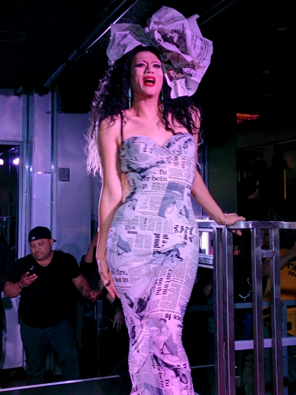 Manila Luzon performing at the Cafe in San Francisco, California, United States.